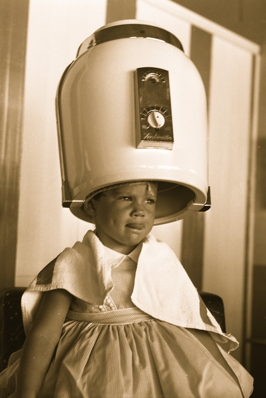 Girl in beauty parlor getting her hair dried, 1958